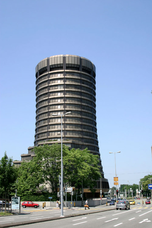 The building of the Bank for International Settlements (BIZ) in Basel near the swiss railway station.